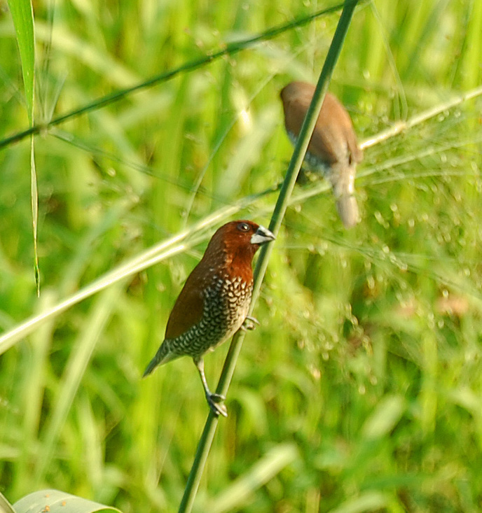 Lonchura punctulata. From Bogor, West Java, Indonesia